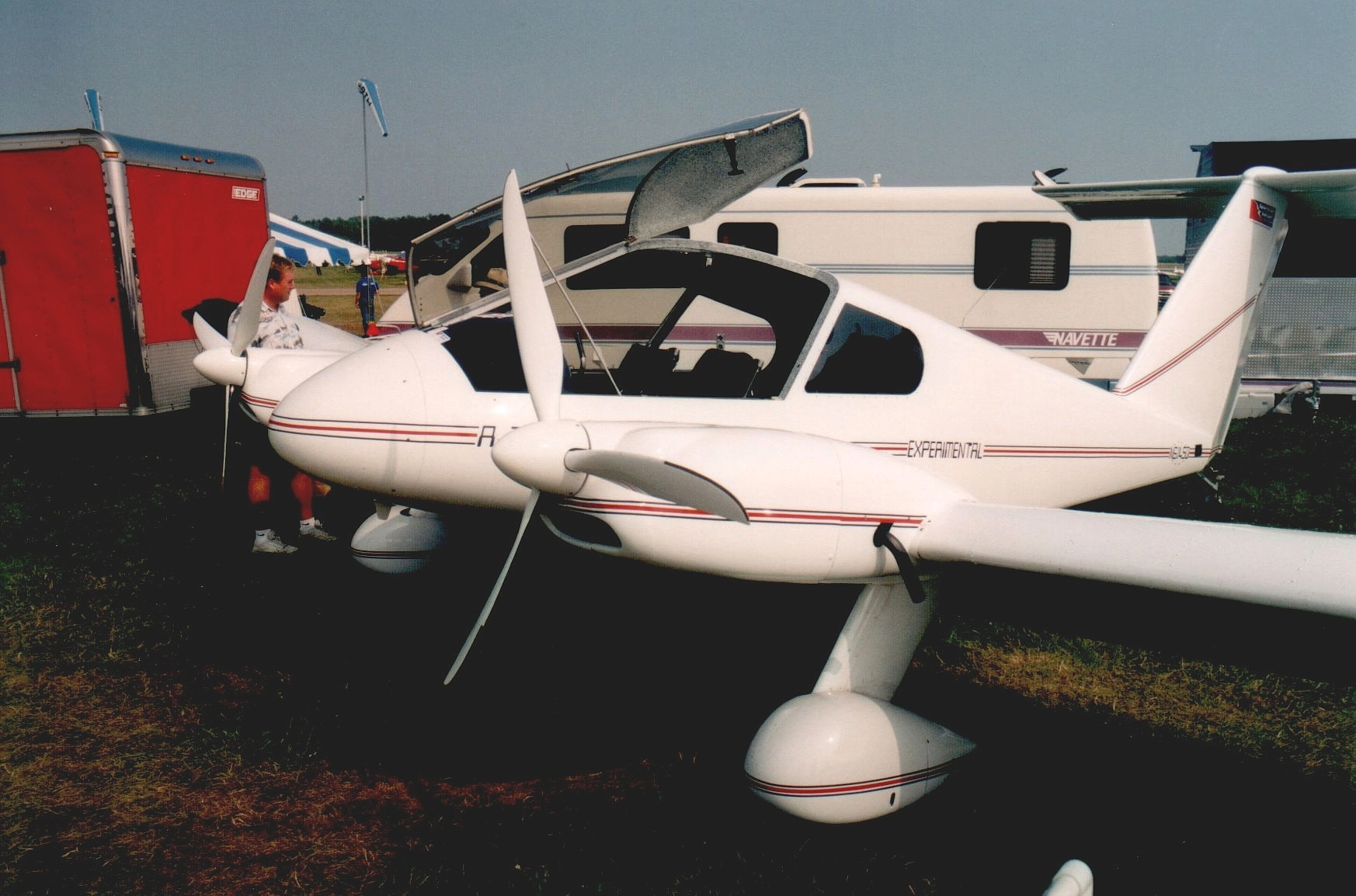 Aeroprakt A28 Victor at AirVenture Oshkosh. Scanned form a 35 mm original print.